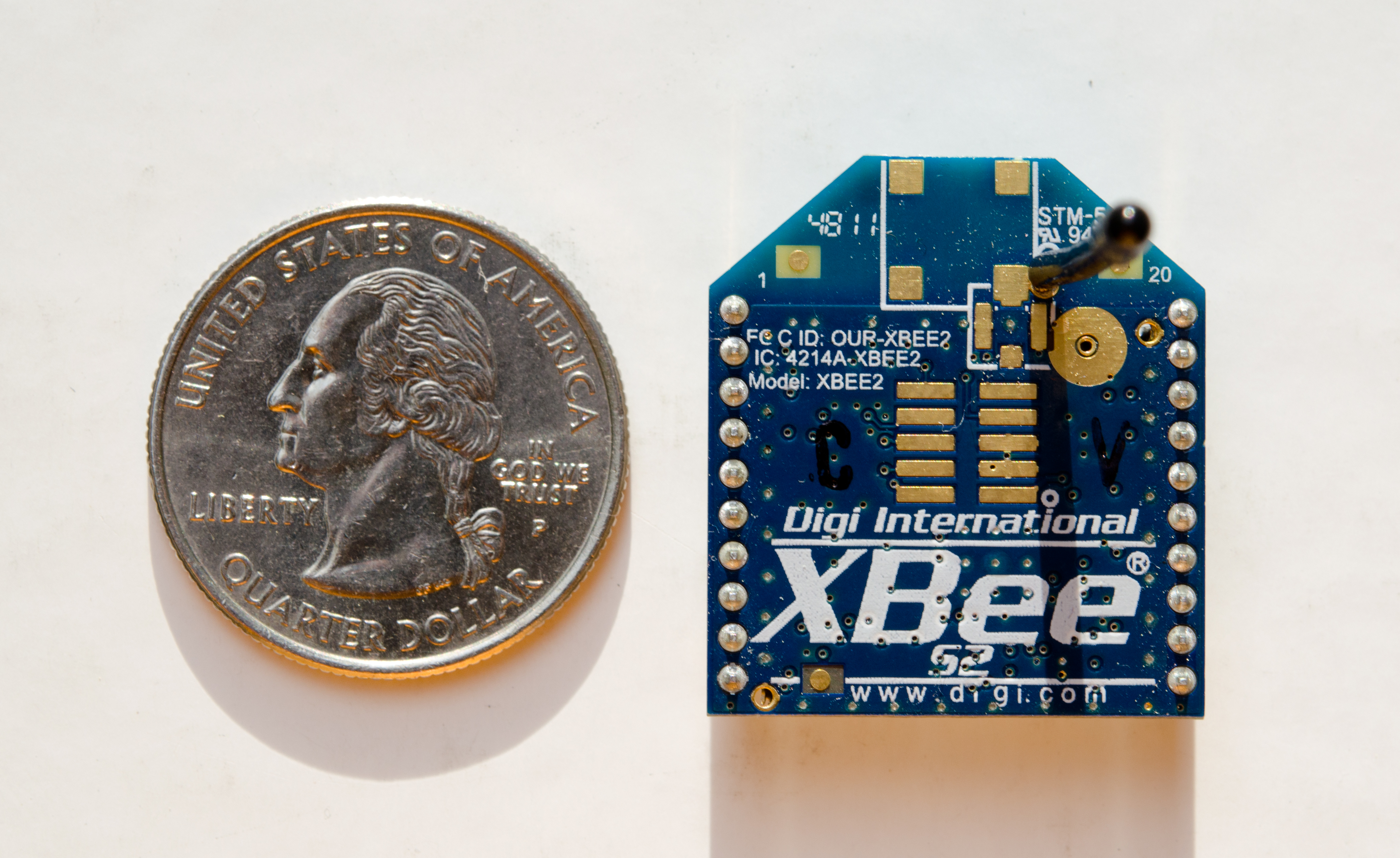 An XBee Series 2 radio with a wire whip style antenna, placed next to a US quarter.